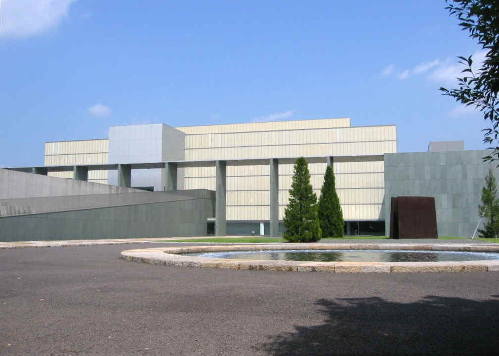 Toyota Munichipal Museum of Art